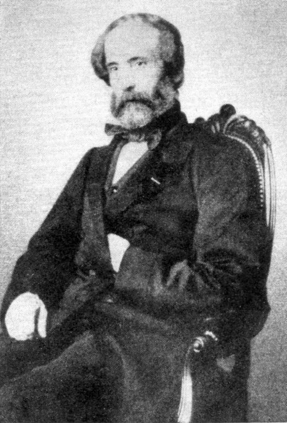 Photograph of Wilhelm Philipp Schimper (1808–1880), geologist, botanist (bryologists), and paleobotanist.